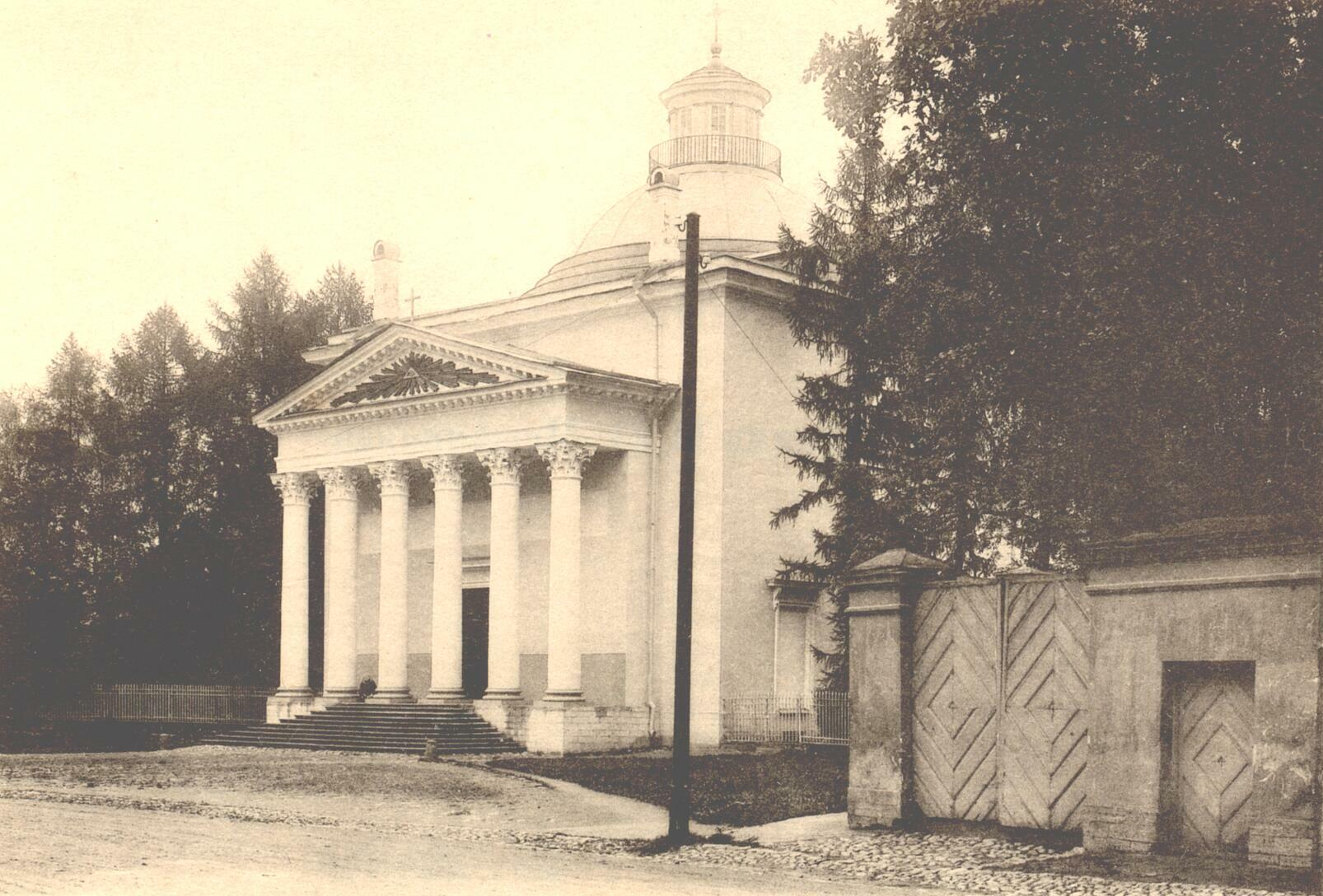 Tsarskoye Selo (Russia), Kostel